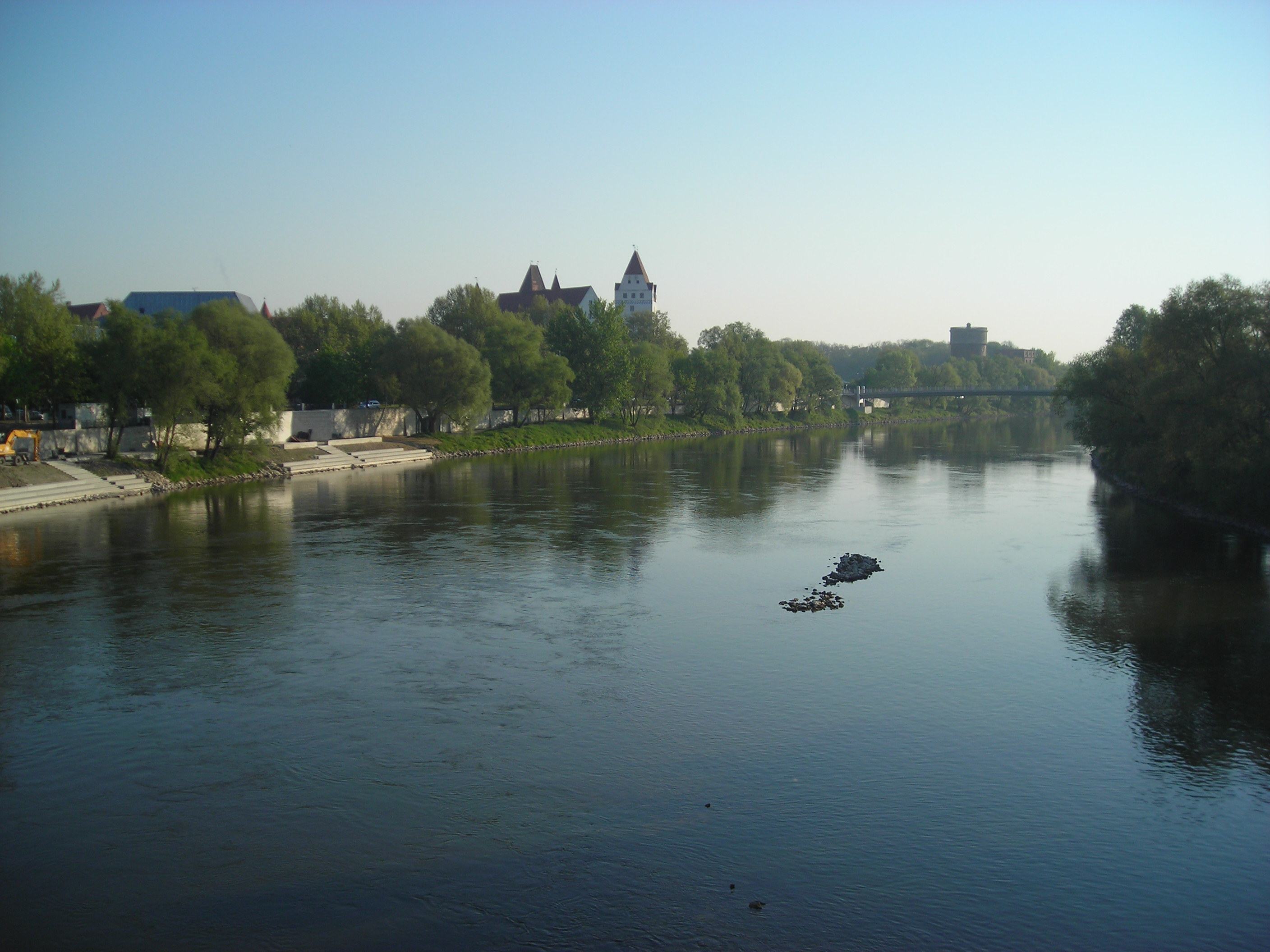 Danube in Ingolstadt, Germany. View from bridge “Konrad-Adenauer-Brücke” in the direction of the “Donausteg”. “Neues Schloss” (“New Castle”) and “Kavalier Dallwigk” in the background.